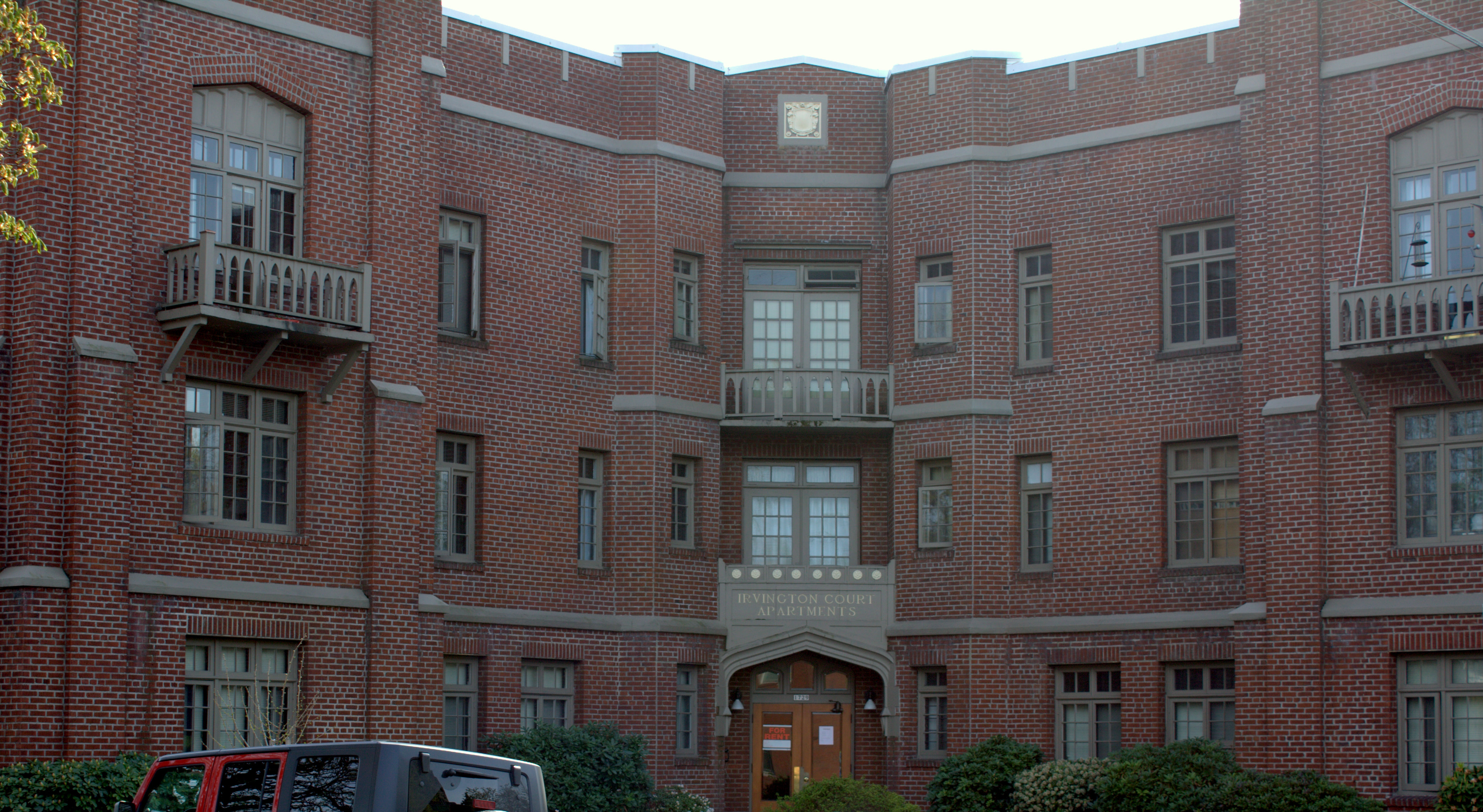 Historic Irvington Court Apartments in Portland, Oregon.